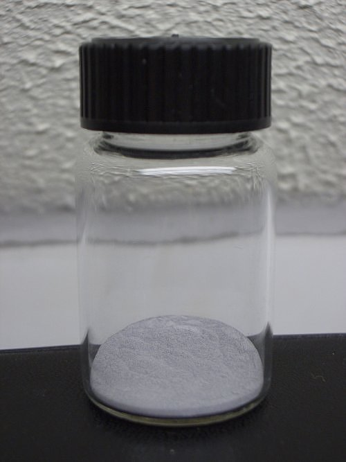 Ruthenium powder